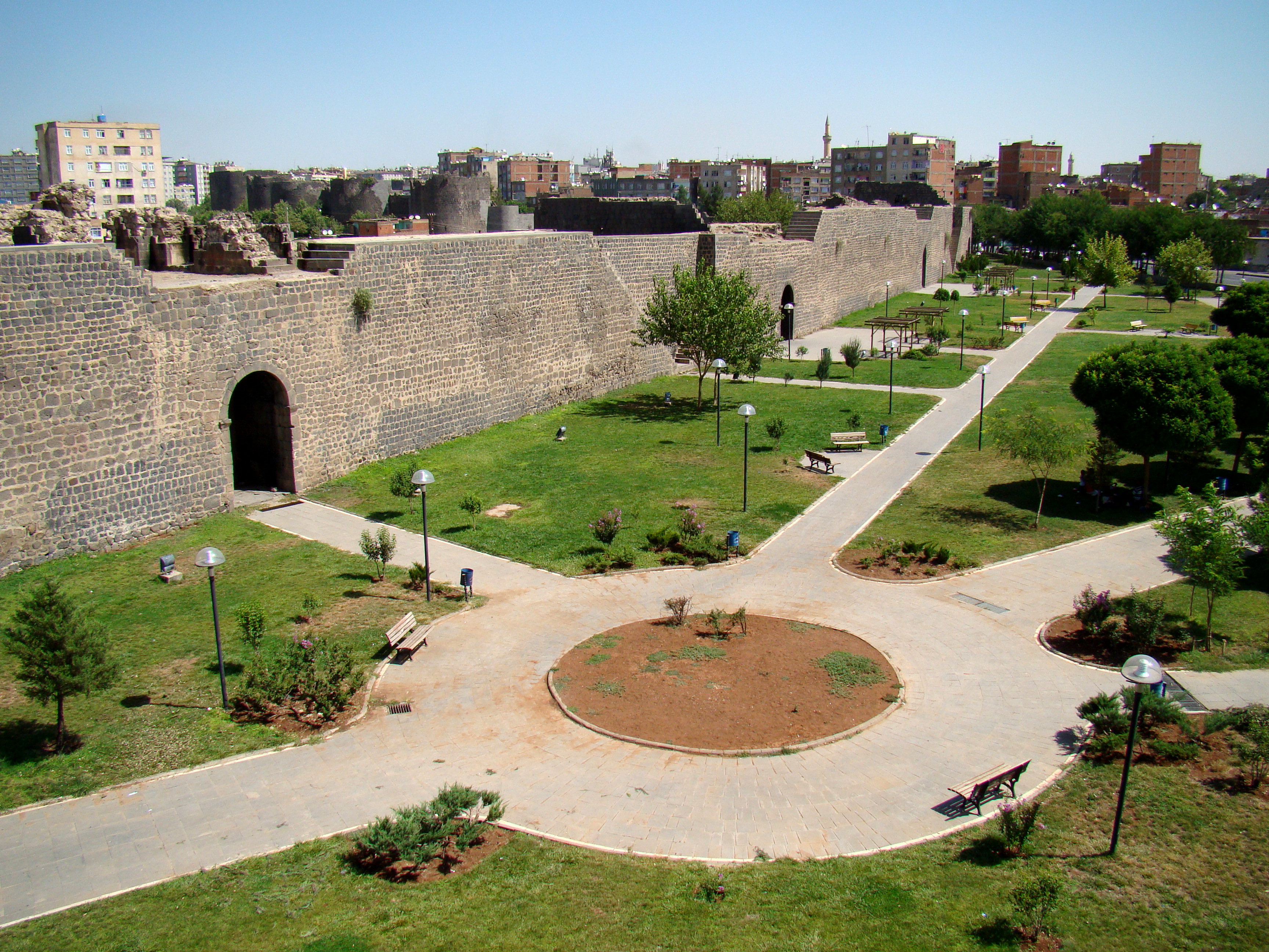 A park inside the very western part of the old city wall in Diyarbakır. The wall is built of blocks of black basalt stone.